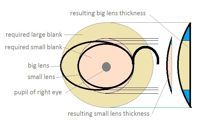 A diagram showing the crude relationship between spectacle lens size and thickness